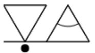 [pʰãːsi] written in the Isibheqe Sohlamvu writing system for sintu languages (Southern Bantu)